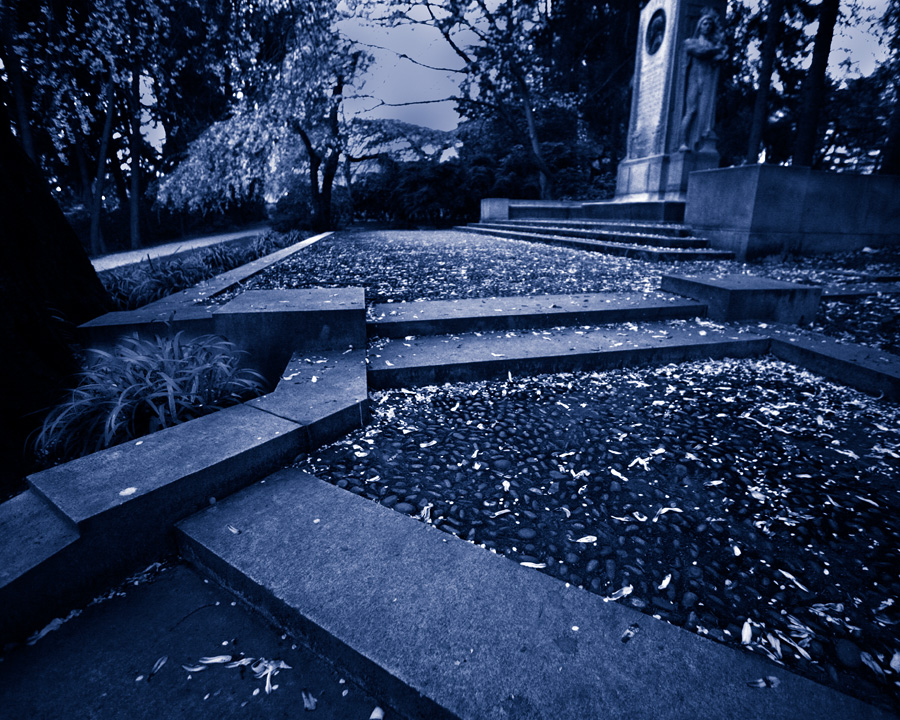 Statue, Volunteer Park; Seattle, Washington Photo by Forrest Croce of LandscapePhoto.us This image was recorded in color and converted and toned blue using a technique described here